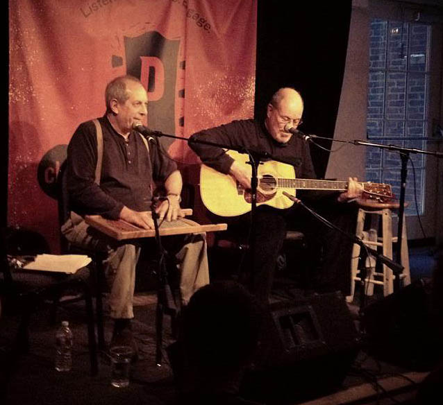 Steve Katz performing with Stefan Grossman.